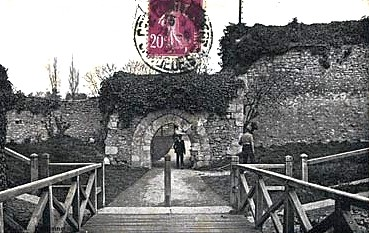 Postal Card of Castle of Brie Comte Robert